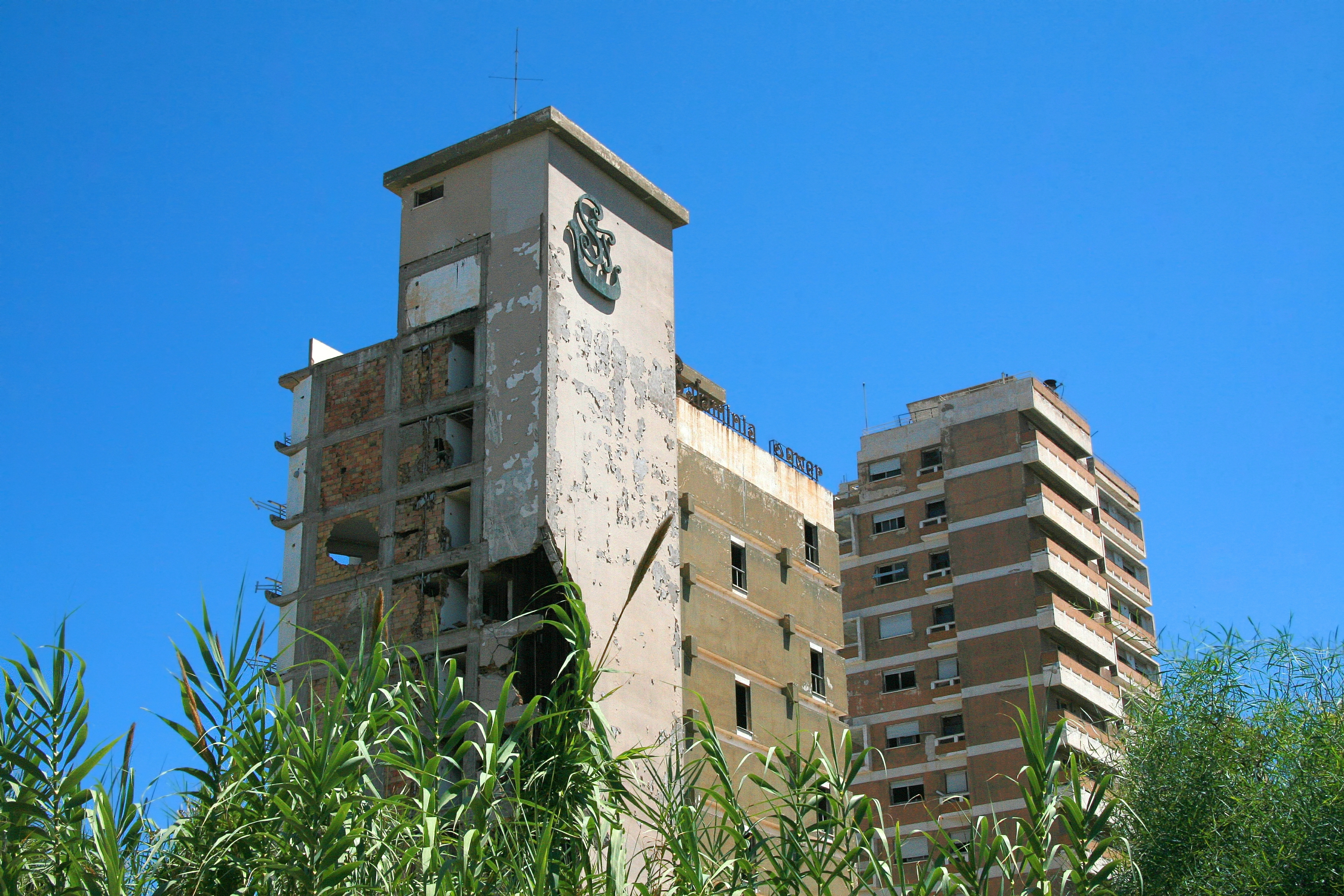 Hotel Salaminia Tower.Since the 1974 Turkish invasion the city has resided in the de facto Turkish Republic of Northern Cyprus. The old tourist quarter of Varosha is abandoned and fenced off, pending a settlement of the Cyprus problem.